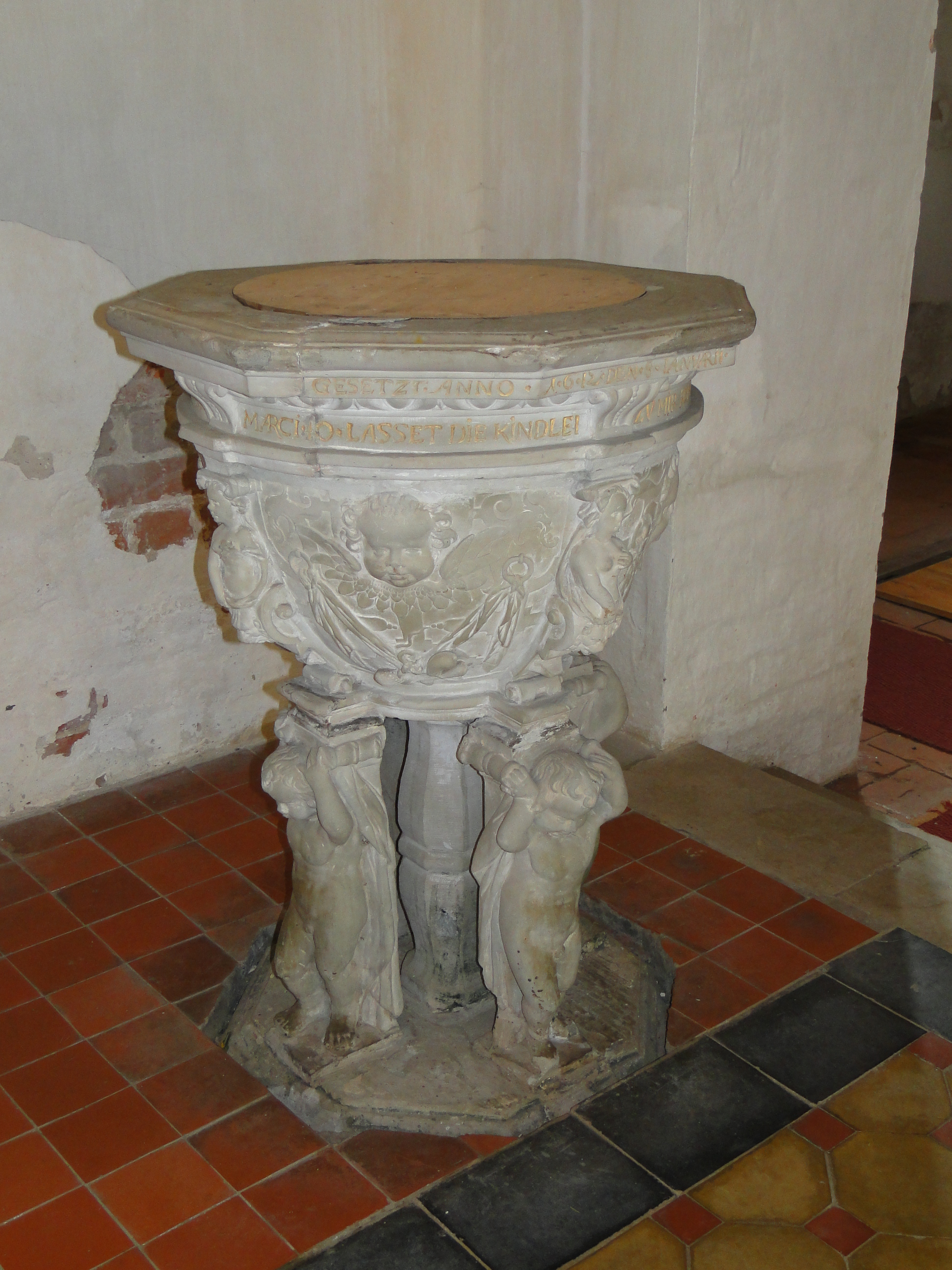 Church in Woosten, district Ludwigslust-Parchim, Mecklenburg-Vorpommern, Germany